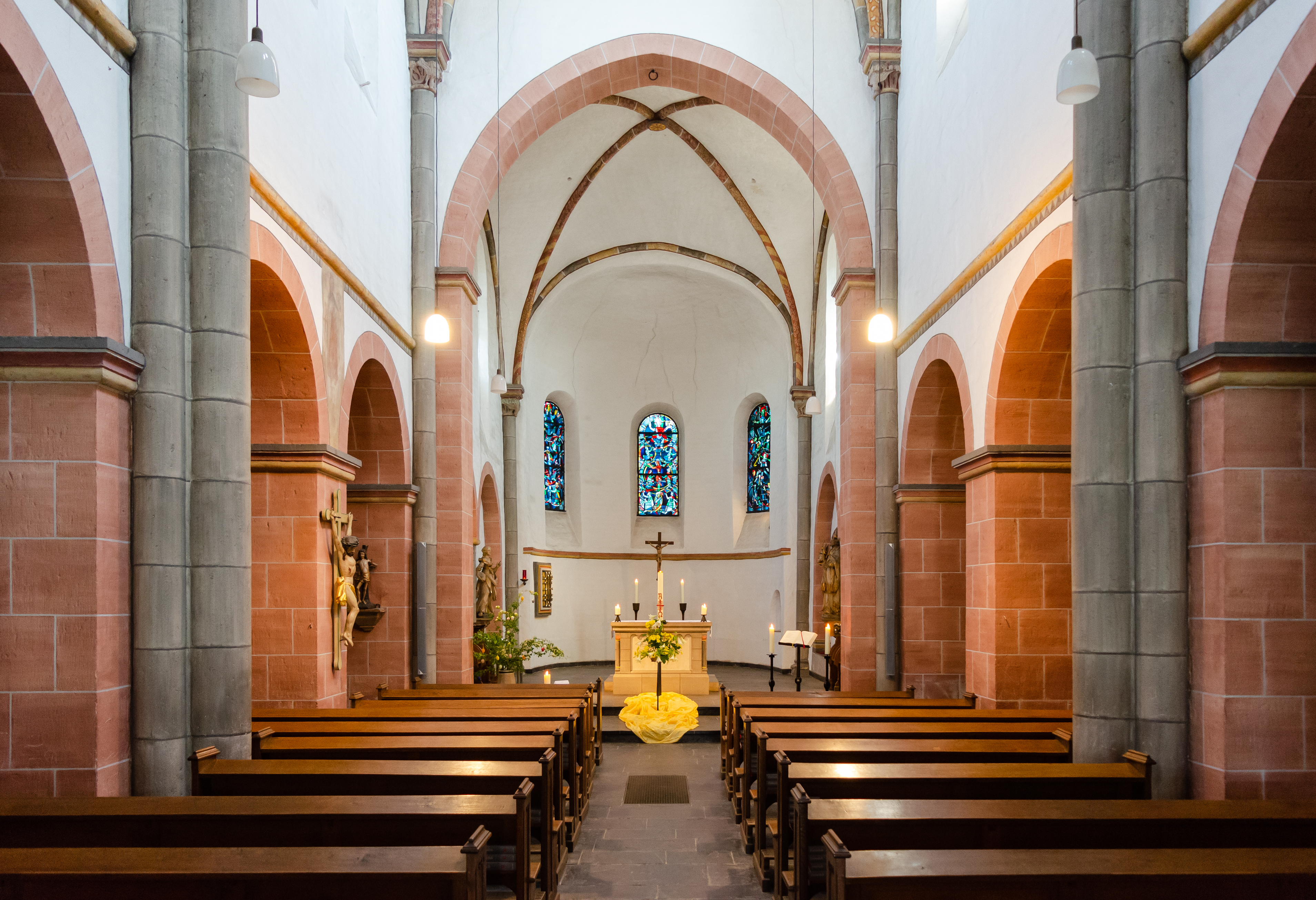 Duisburg (North Rhine-Westphalia, Germany) – borough Süd, district Mündelheim – Catholic Saint Dionysius Church – interior